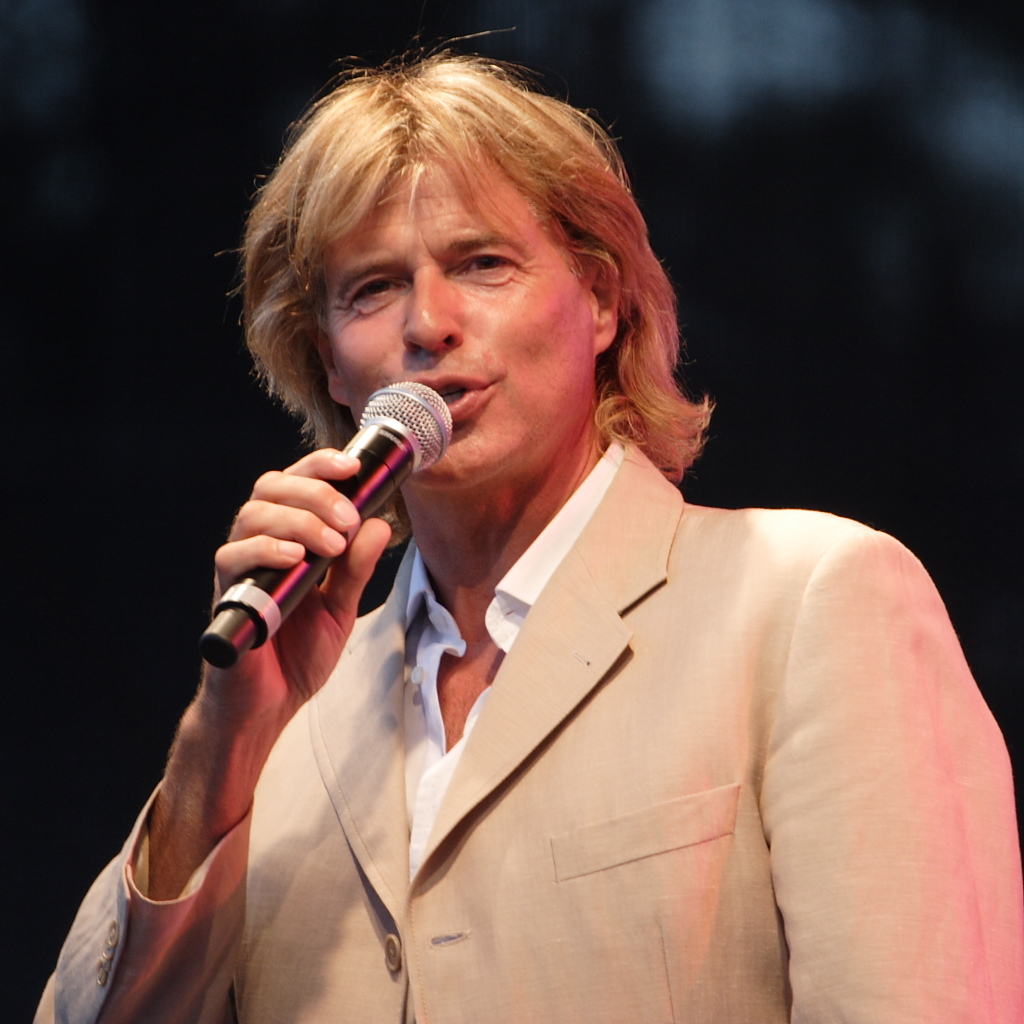 Hansi Hinterseer(Open Concert at subway opening U1, Vienna)